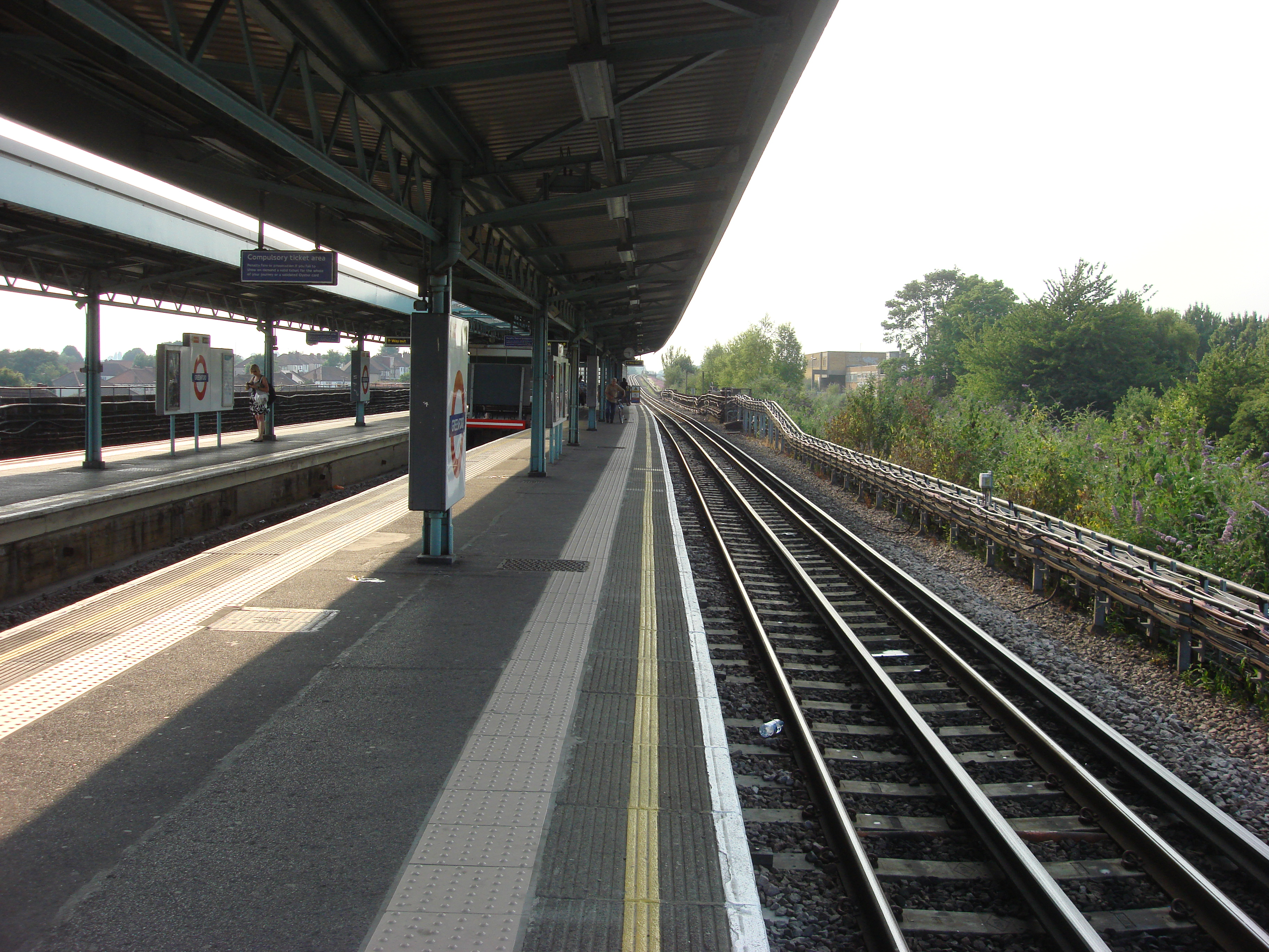 Greenford railway station